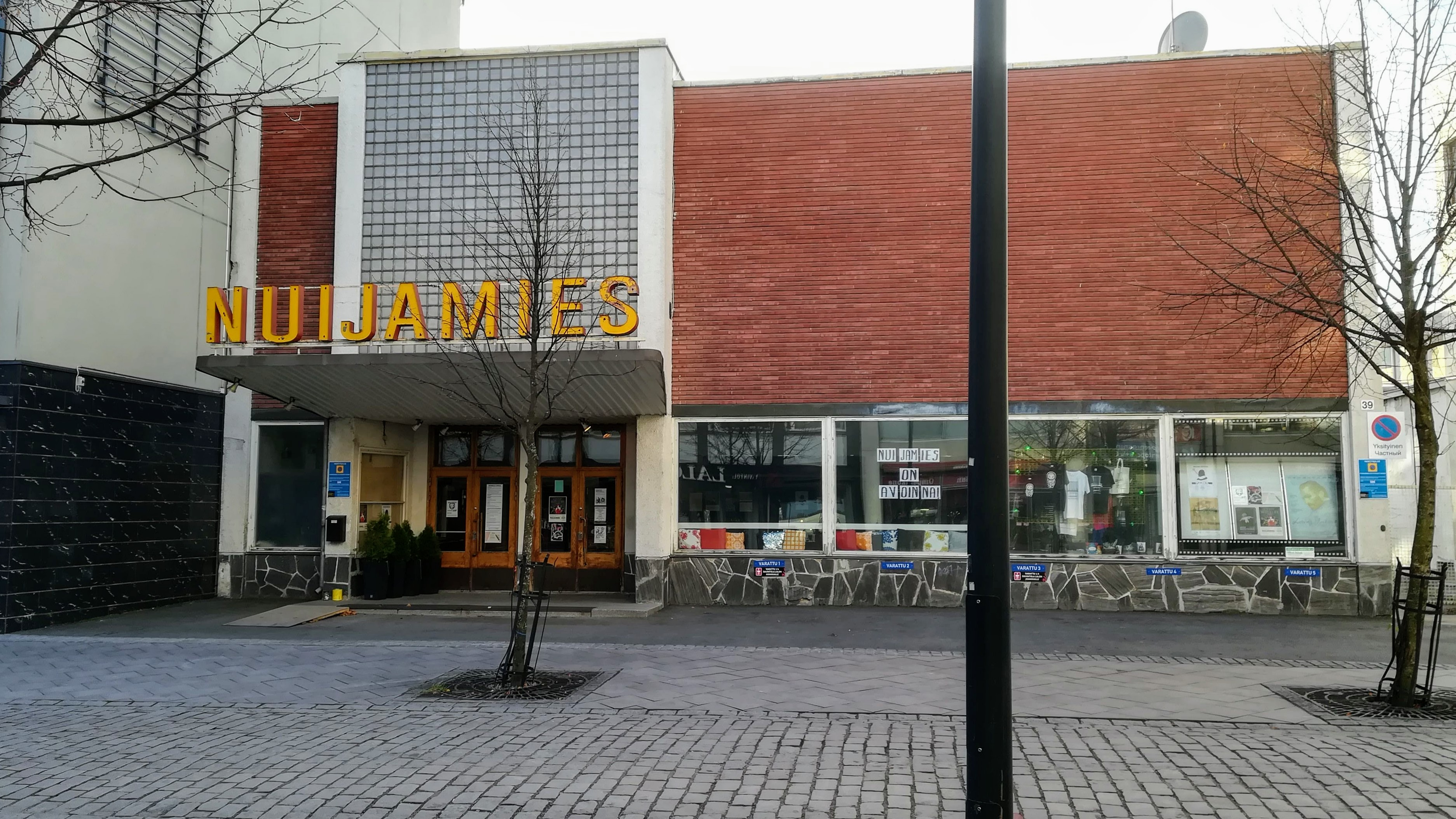 Nuijamies Building in Lappeenranta, Finland. Formerly a movie theatre. The theatre was opened in 1954. The building was designed by Per Björkwall.